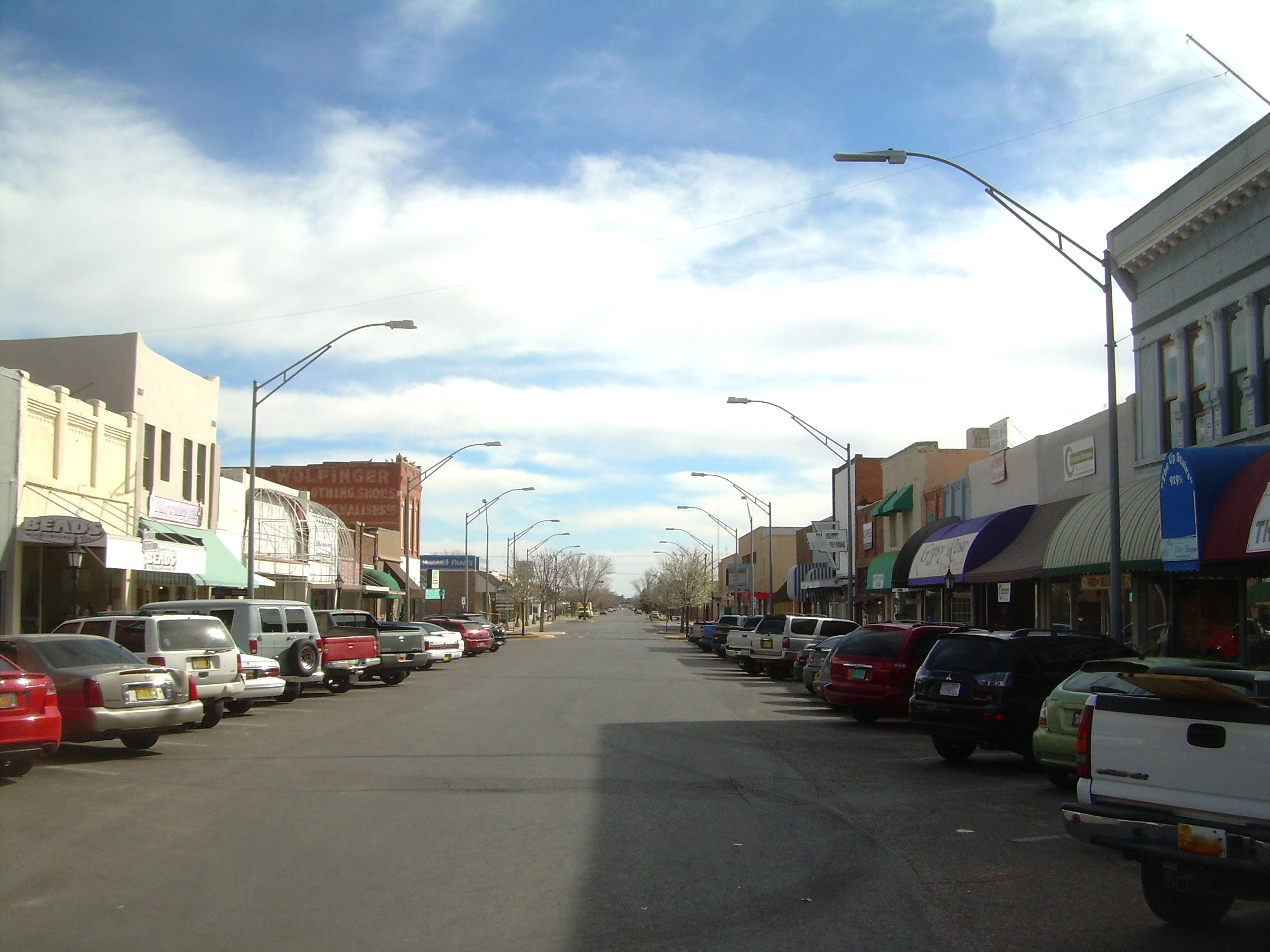 Downtown Alamogordo, New Mexico.